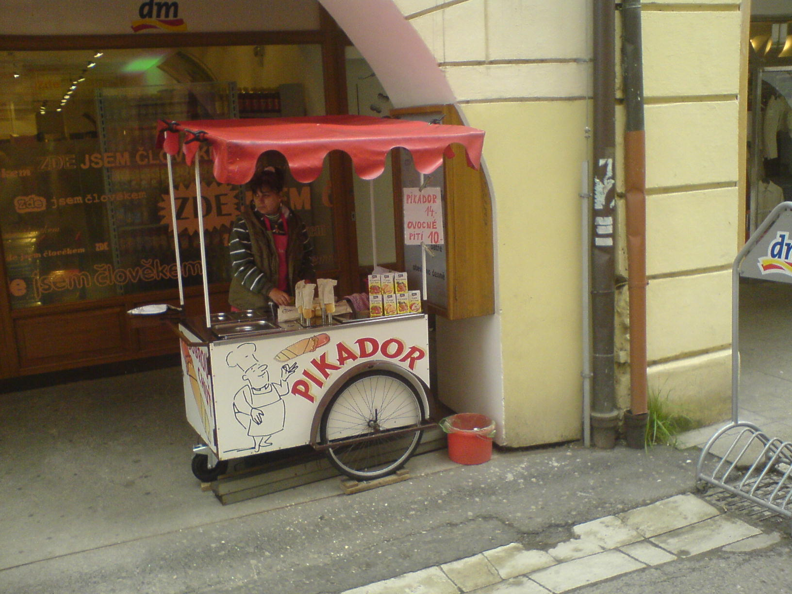 Hot dog stall in Krajinská Street, České Budějovice, Czech Republic. The hot dog is called 'pikador' by České Budějovice citizens